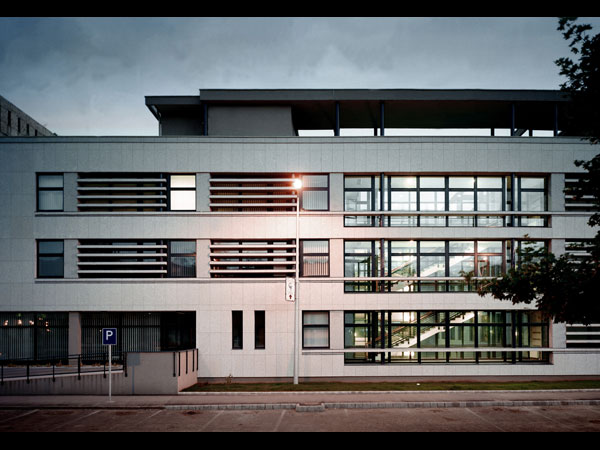 University of Medical Sciences, Pécs, Center of Cardiology and Heart Surgery